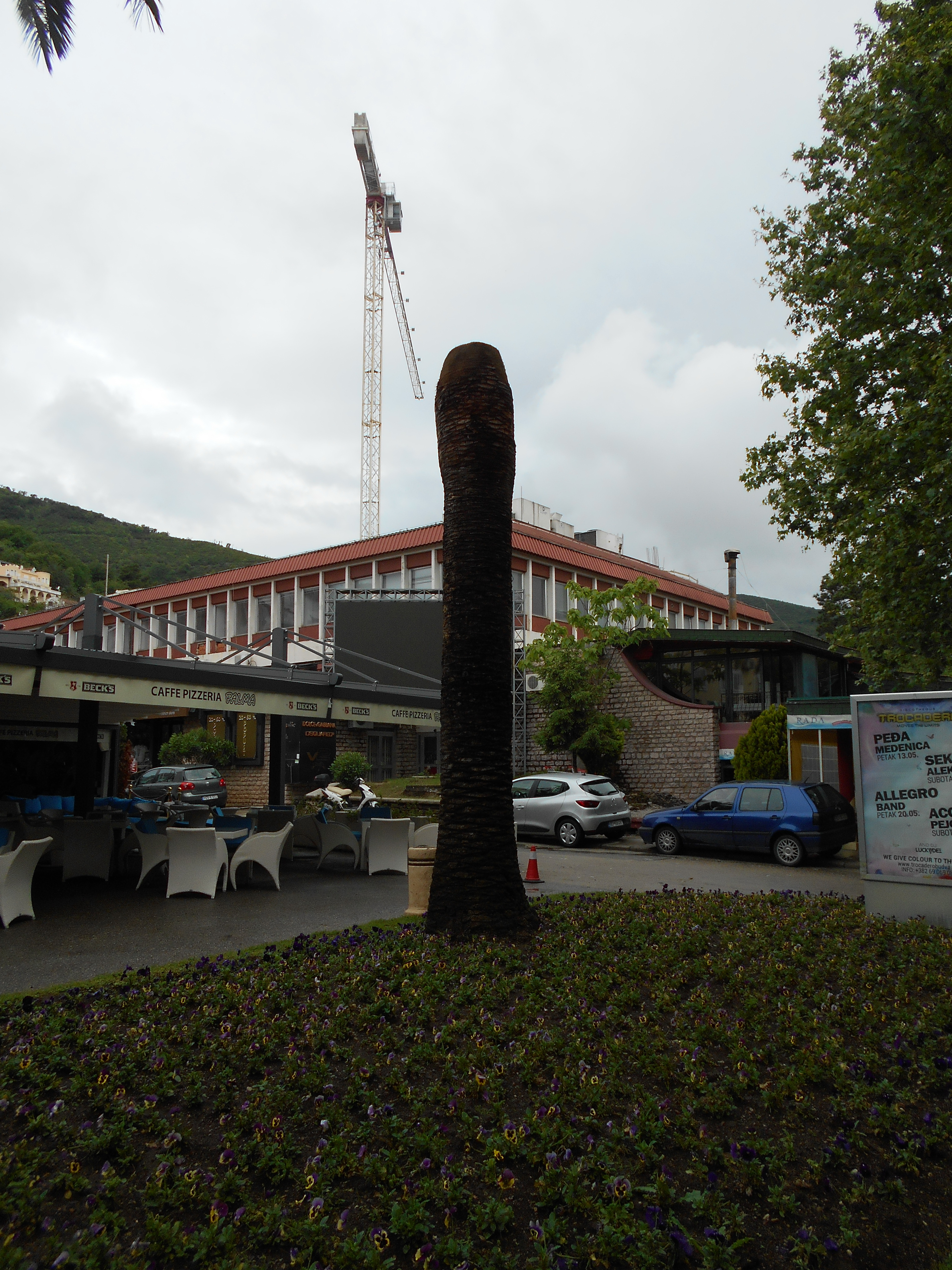 Phoenix palm (Phoenix canariensis) completely destroyed after the attack of the red palm weevil (Rhynchophorus ferrugineus). Budva, Montenegro, may 2016.